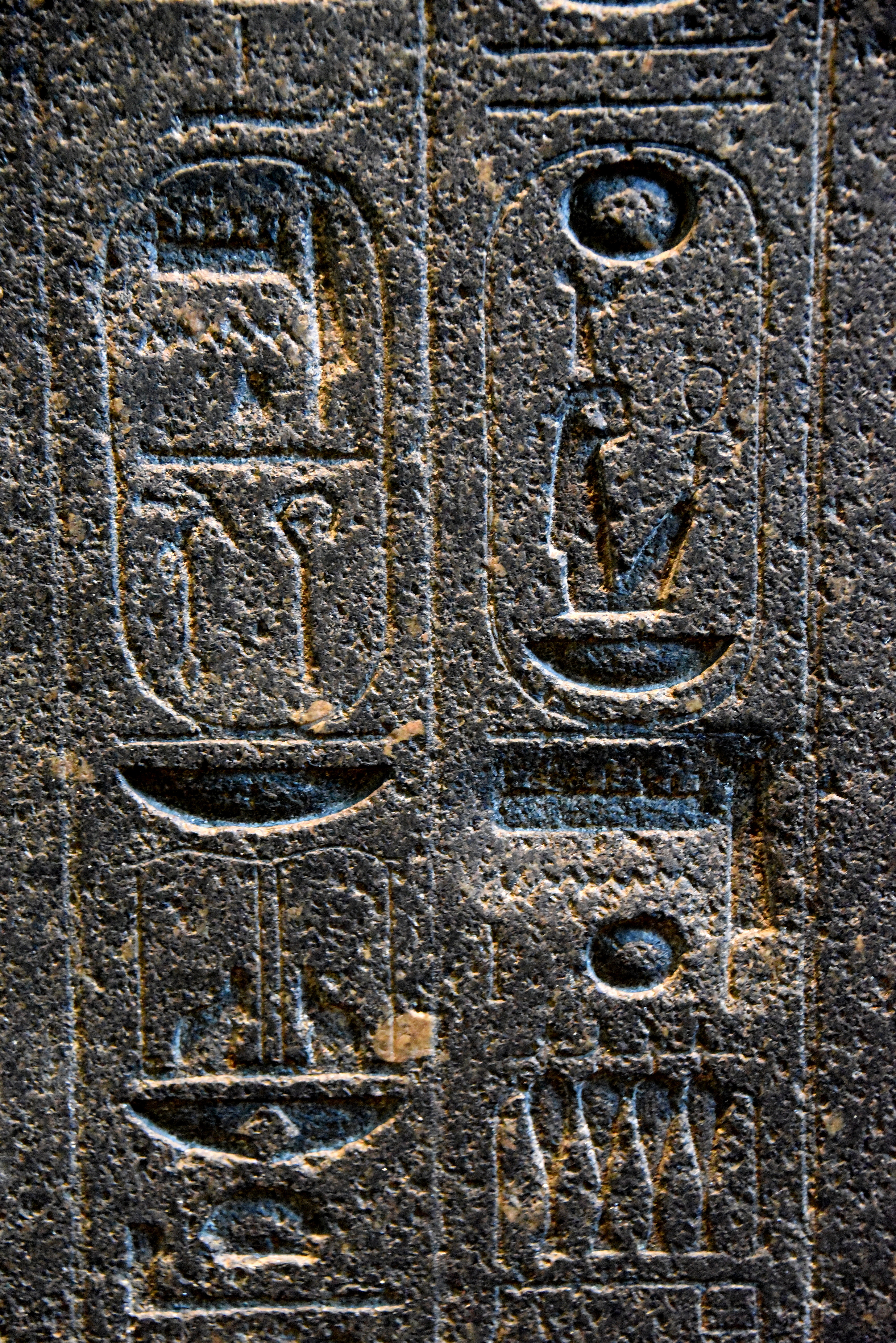 Hieroglyphs on the back-pillar of Amenhotep III's statue (reigned 1390-1352 BCE). There are 2 places where Akhenaten's agents erased the name Amun, later restored on a deeper surface. It appears on the left in a cartouche enclosing the birth name "Amenhotep", and on the right in the epithet "beloved of Amun-Ra". The British Museum, London.